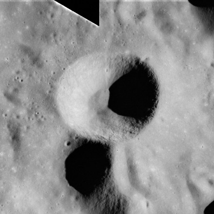 Santos-Dumont crater, on the moon.